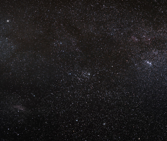 The Milky Way galaxy in direction of Perseus constellation.